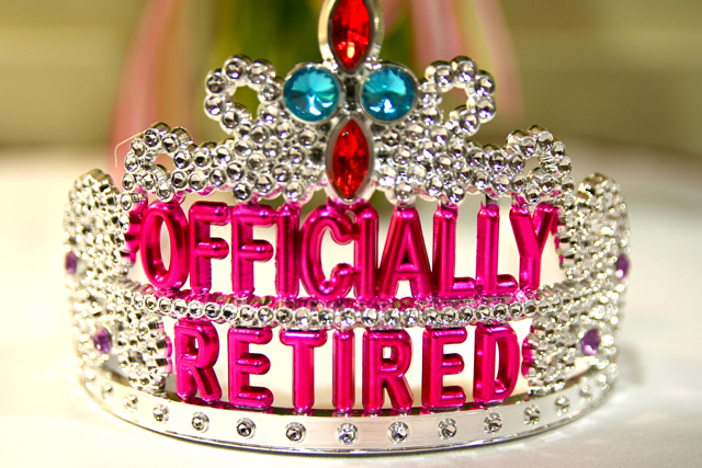 Officially Retired Tiara Crownnl